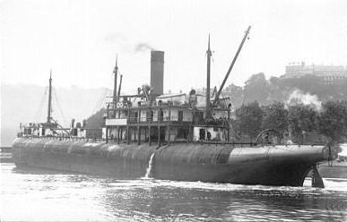 The whaleback steamer Sagamore underway